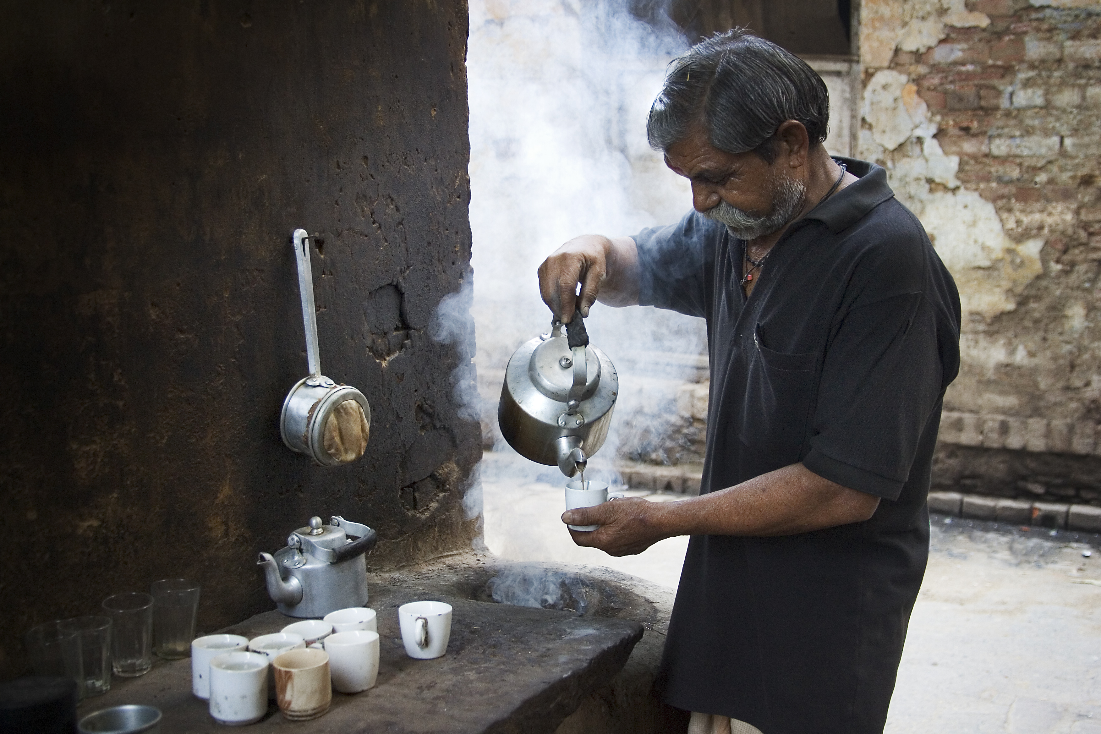 Tea Chai seller on the street Varanasi Benares India